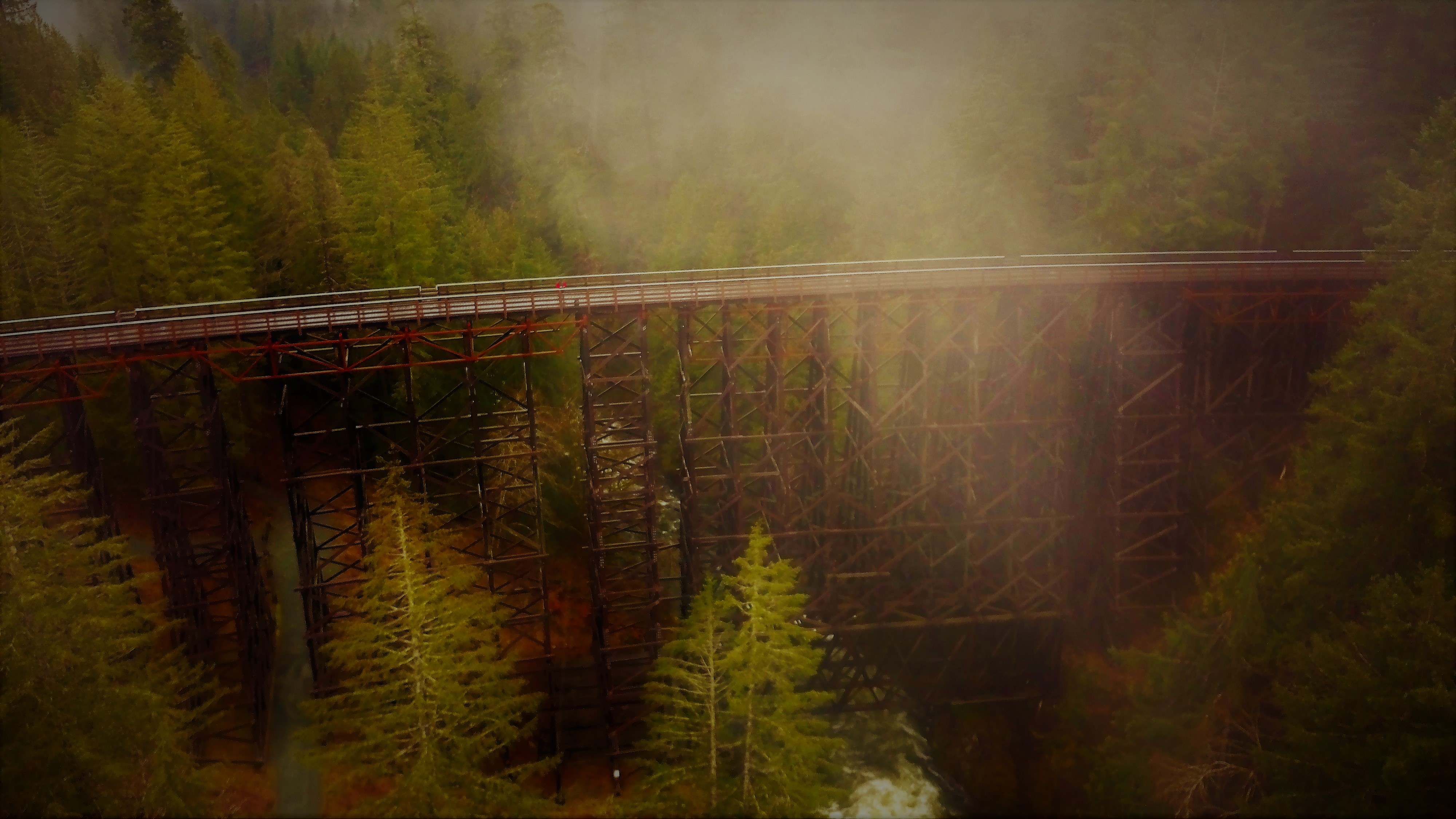 2018 jan morning